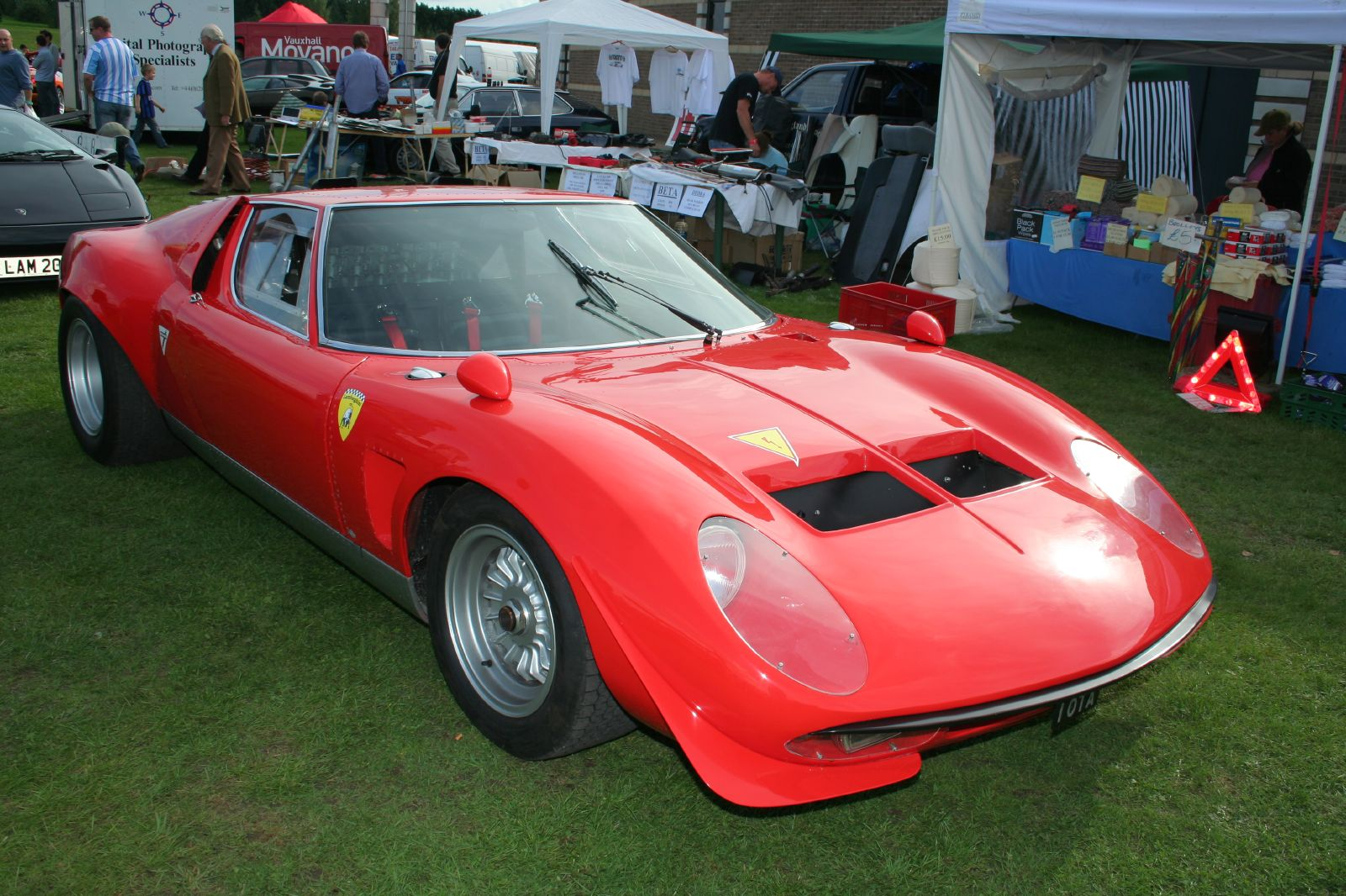 A recreation of the Lamborghini Miura Jota